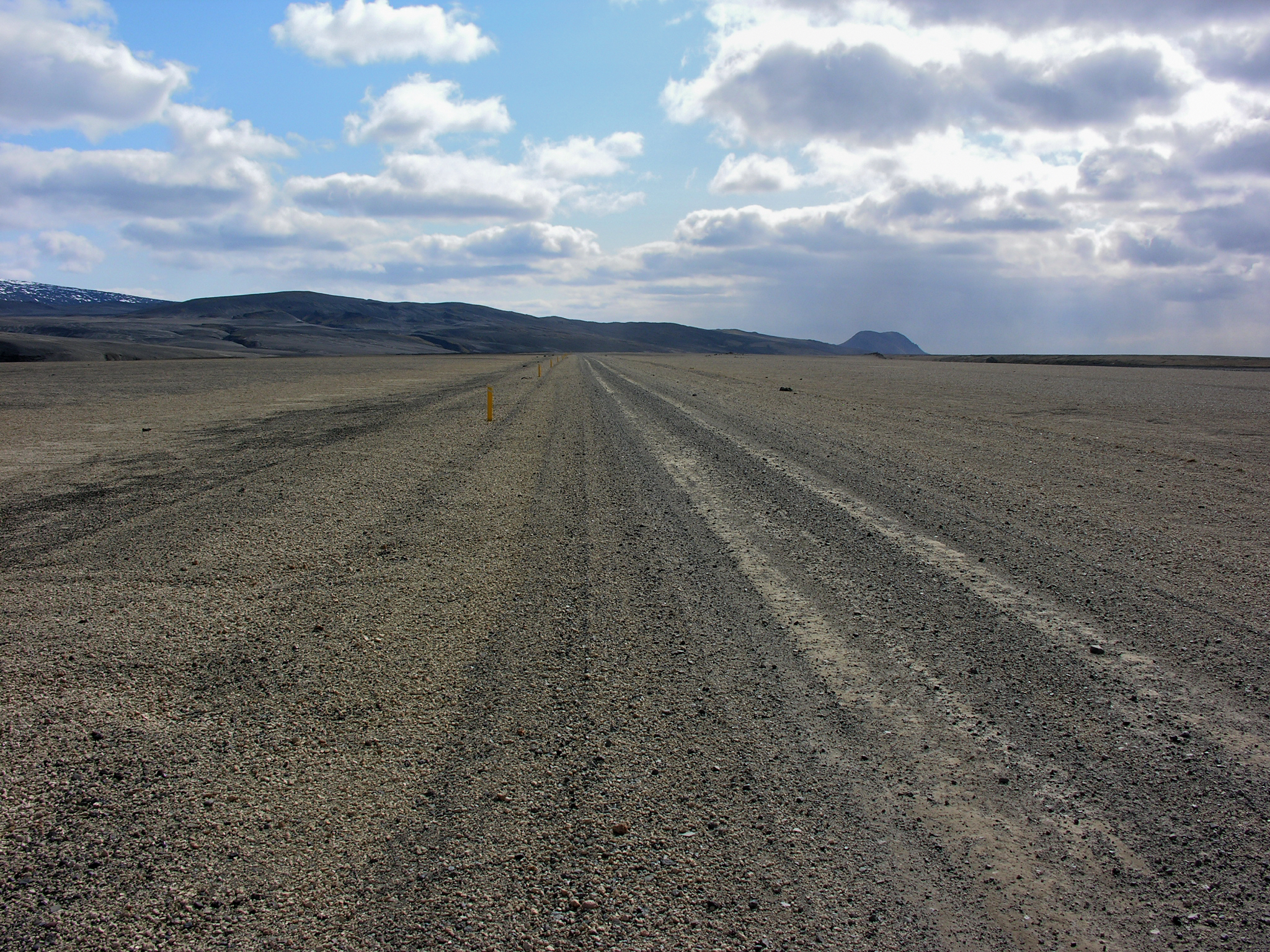 Iceland, The lava plain Árskógar